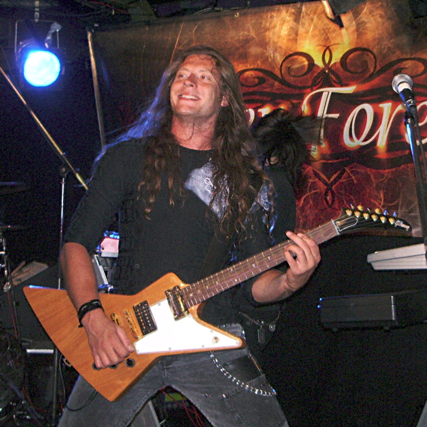 Sander Gommans of After Forever at The Underworld in London, 14th September 2007